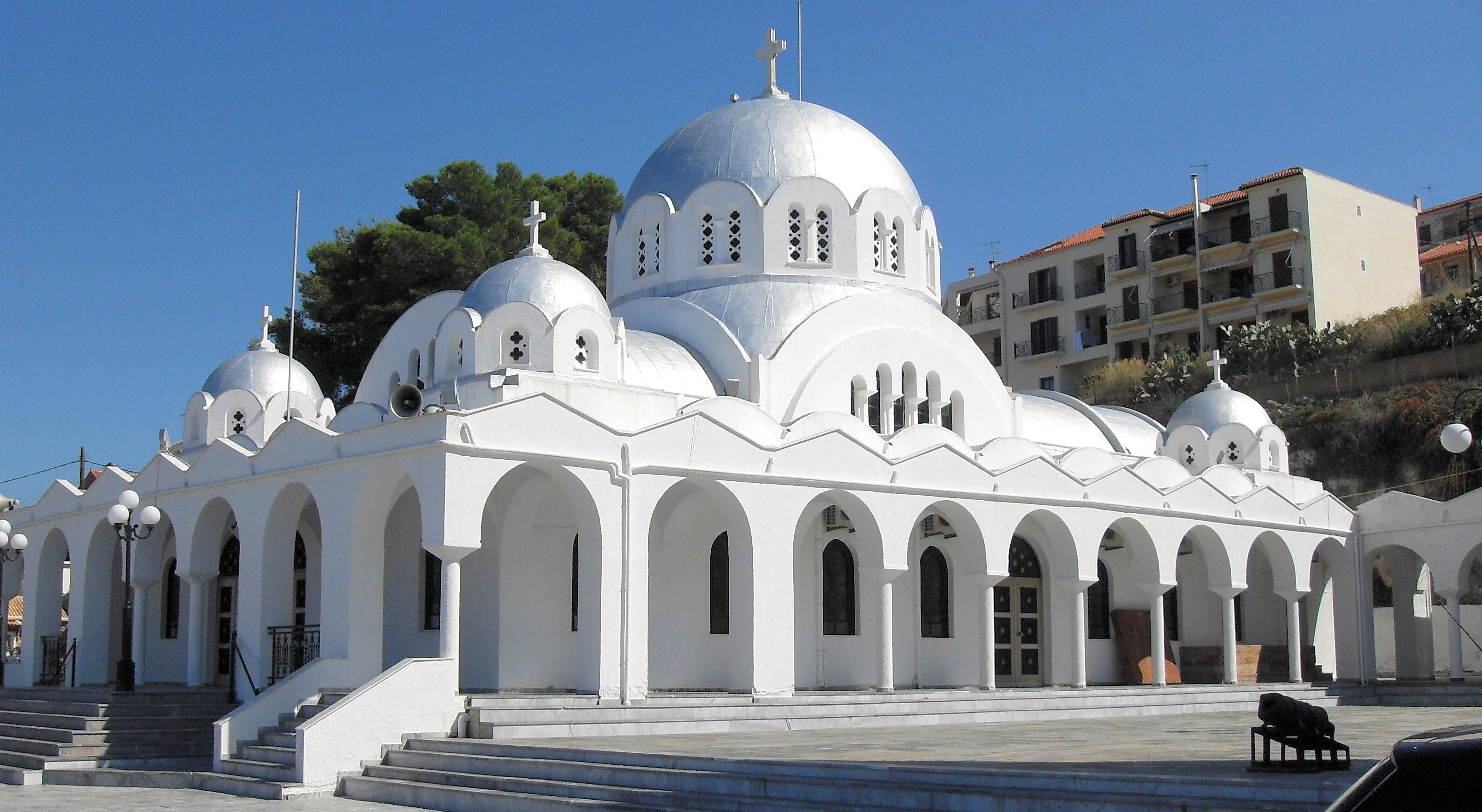 Holy Assumption Church of Pylos